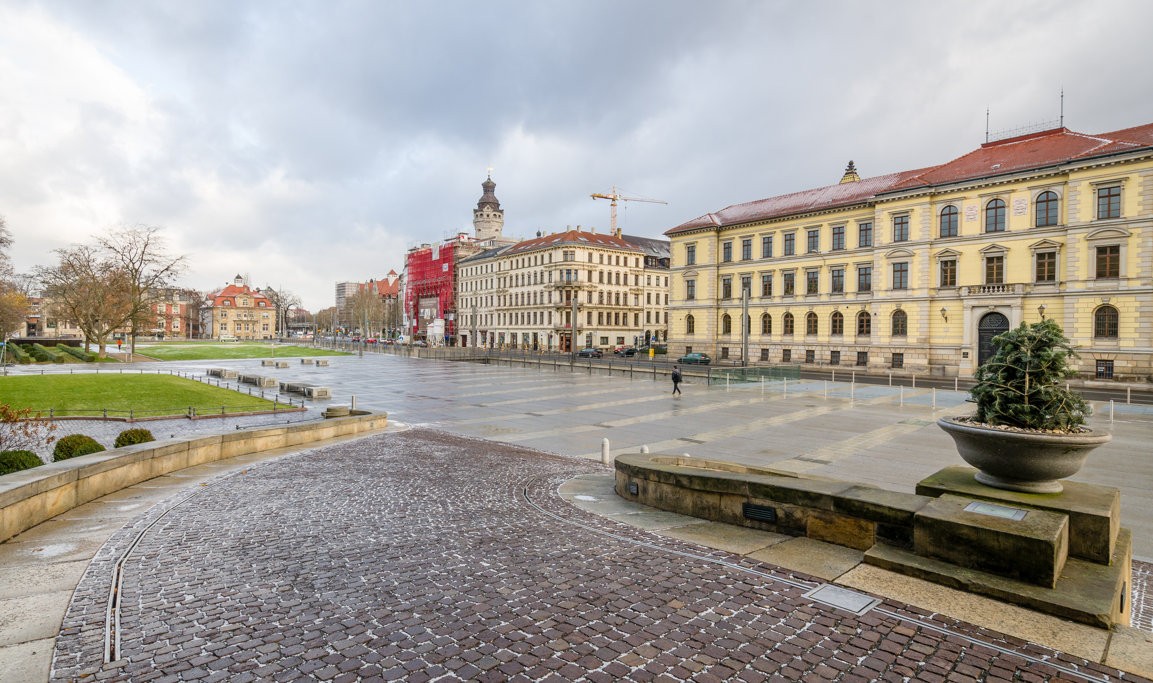 View over Simson Place (Simsonplatz) with District Court on the opposite side photographed from the ascent to the Federal Administrative Court